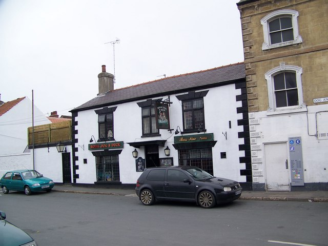 The Royal Dog and Duck, Flamborough, East Riding of Yorkshire, England.